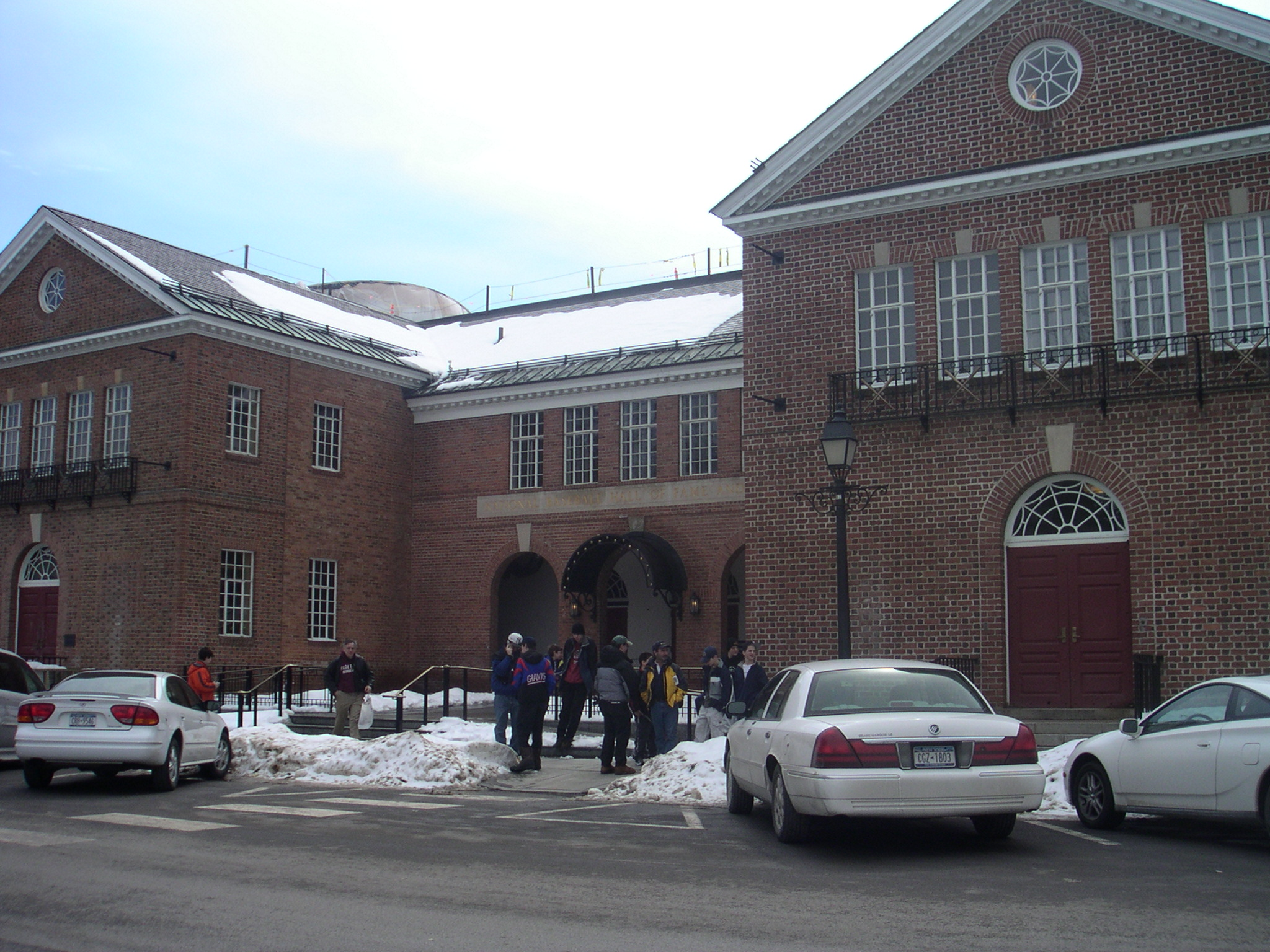 Baseball Hall of Fame, Cooperstown, NY, Feb. 2004